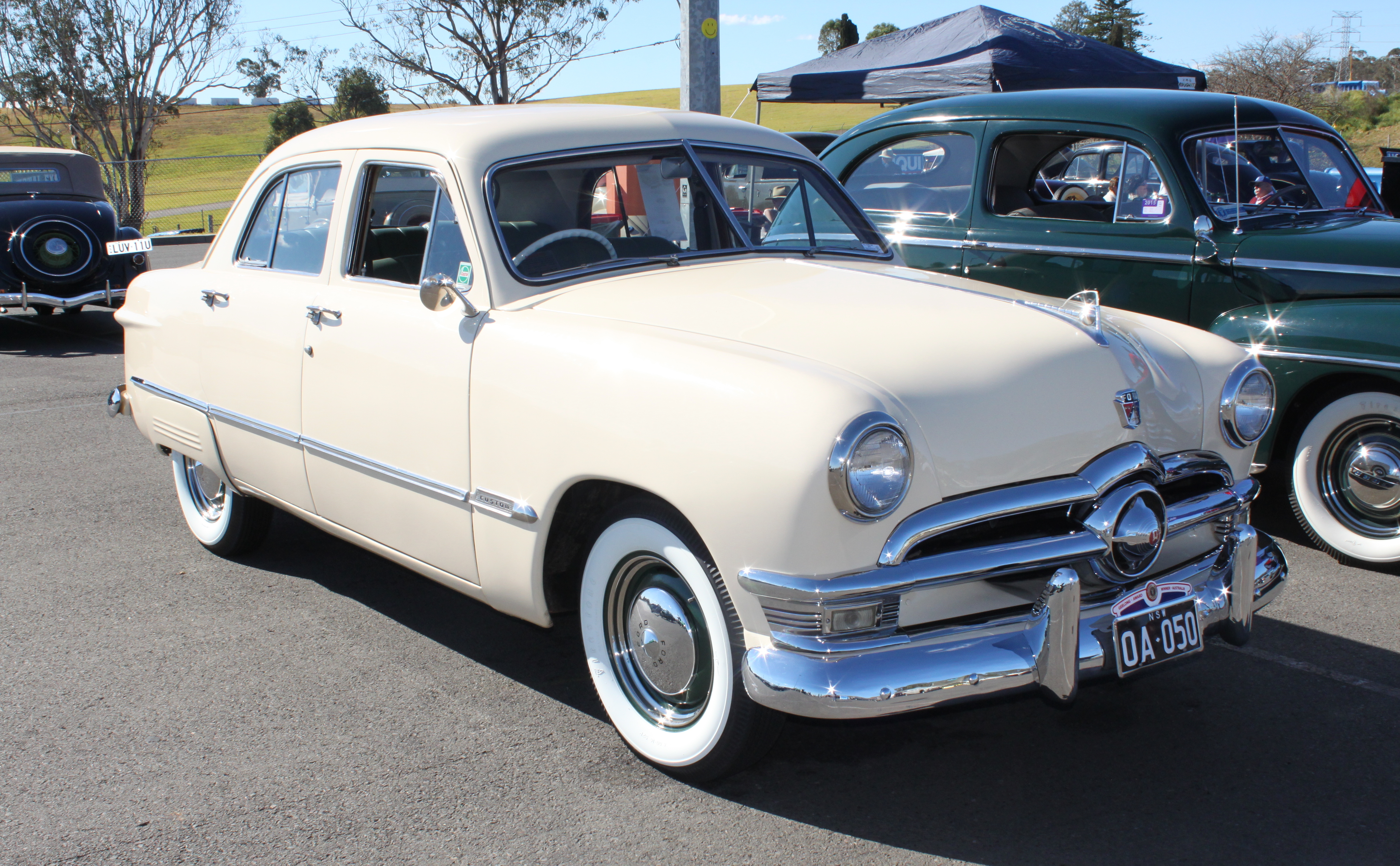 1950 Ford Custom